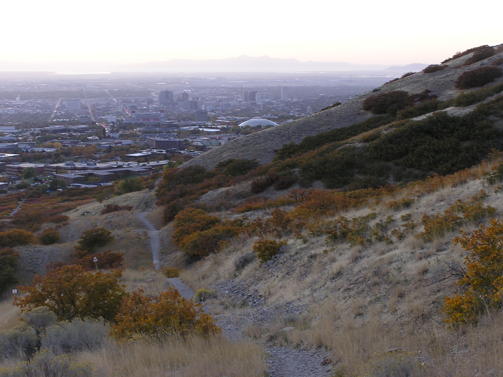 Bonneville Shoreline Trail overlooking Salt Lake City Utah, October 2008.